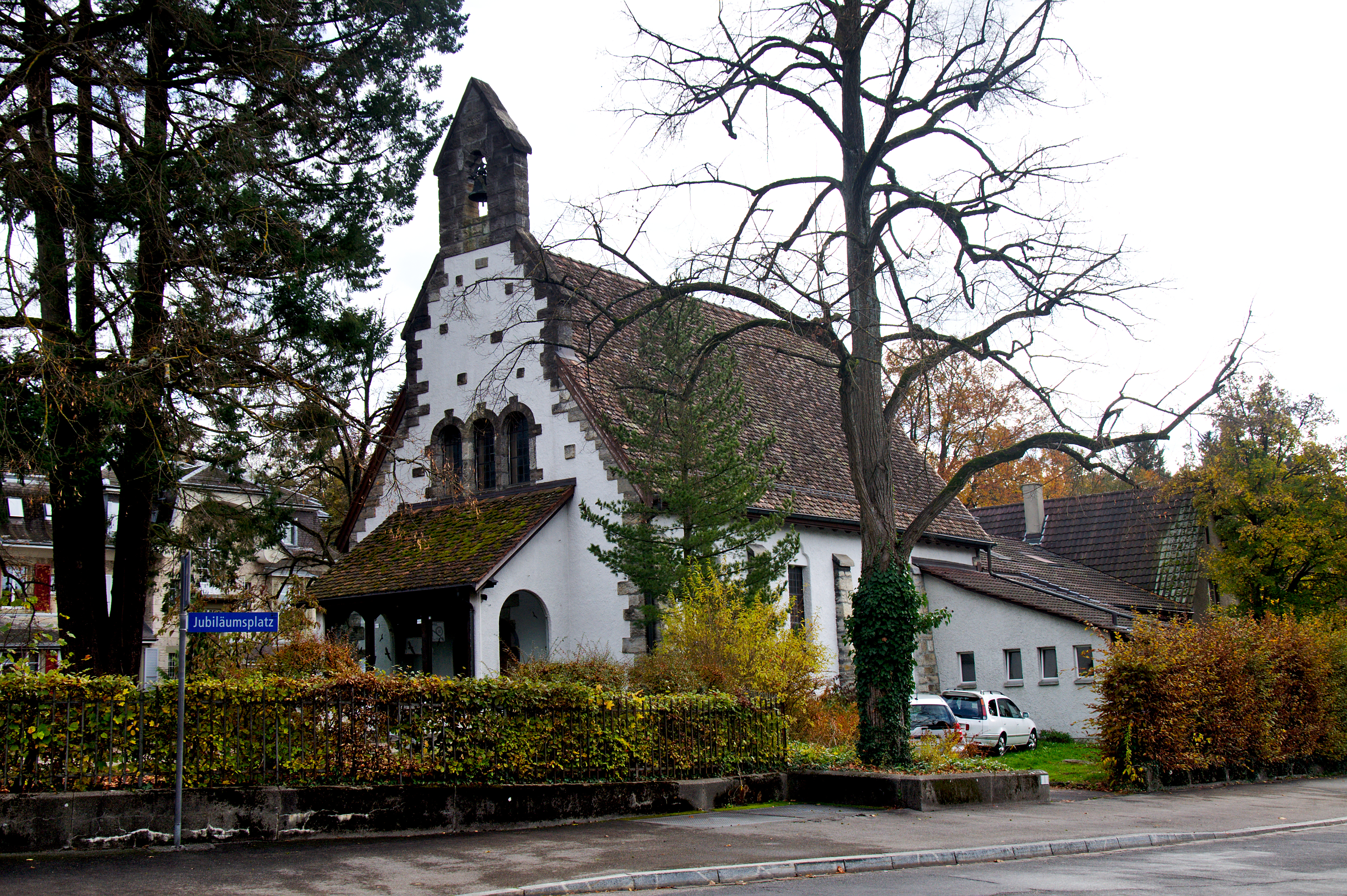 The Anglican St. Ursula's Church in Berne, Switzerland